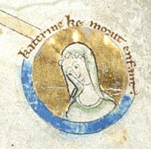 Katherine of England, last daughter of Henry III.